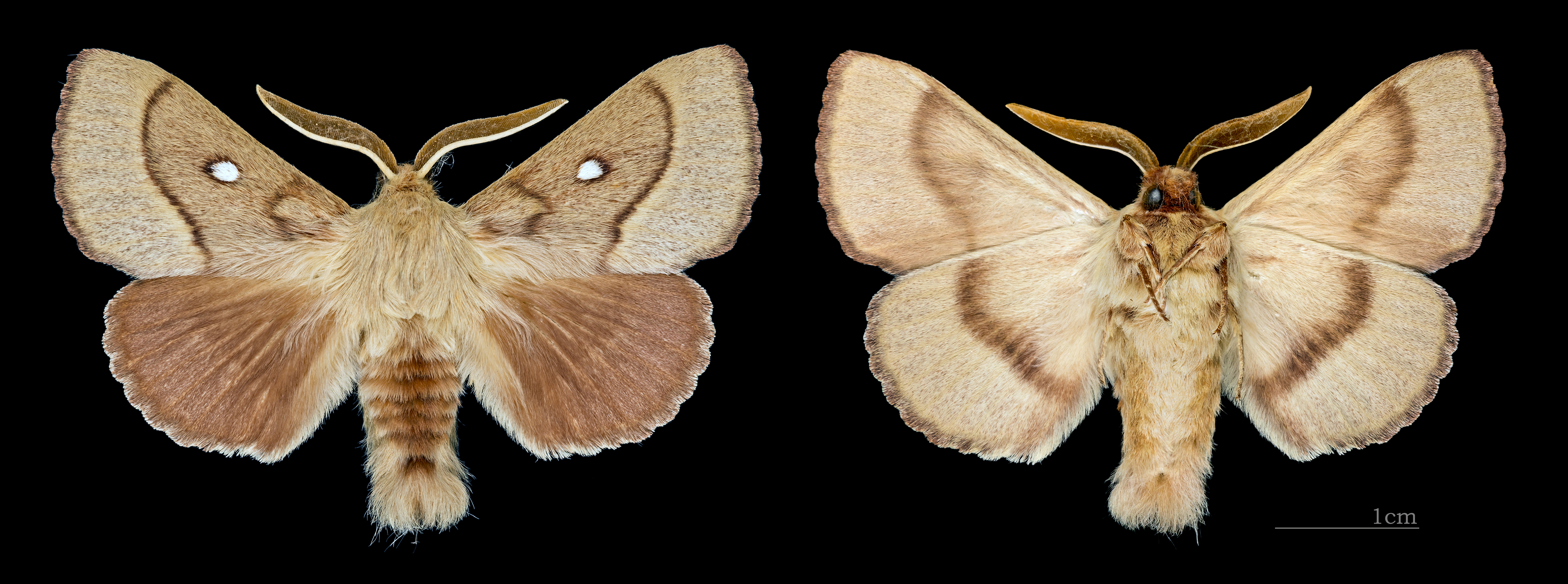 Grass Eggar -Two views of same specimen